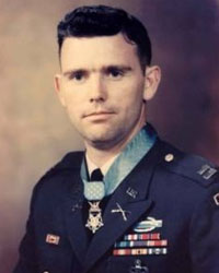 US Army file photo of Ronald E. Ray